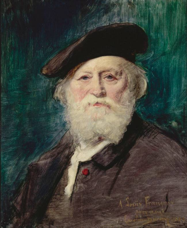 Portrait of François-Louis Français (1814–1897)